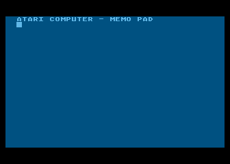 The startup screen on early models of Atari 8-bit computers when no program is loaded.